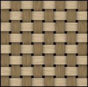 Example of basketweave texture